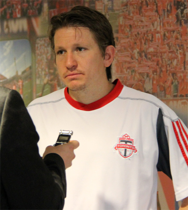 Terry Dunfield talking to reporters after a Toronto FC morning practice in April 2012.